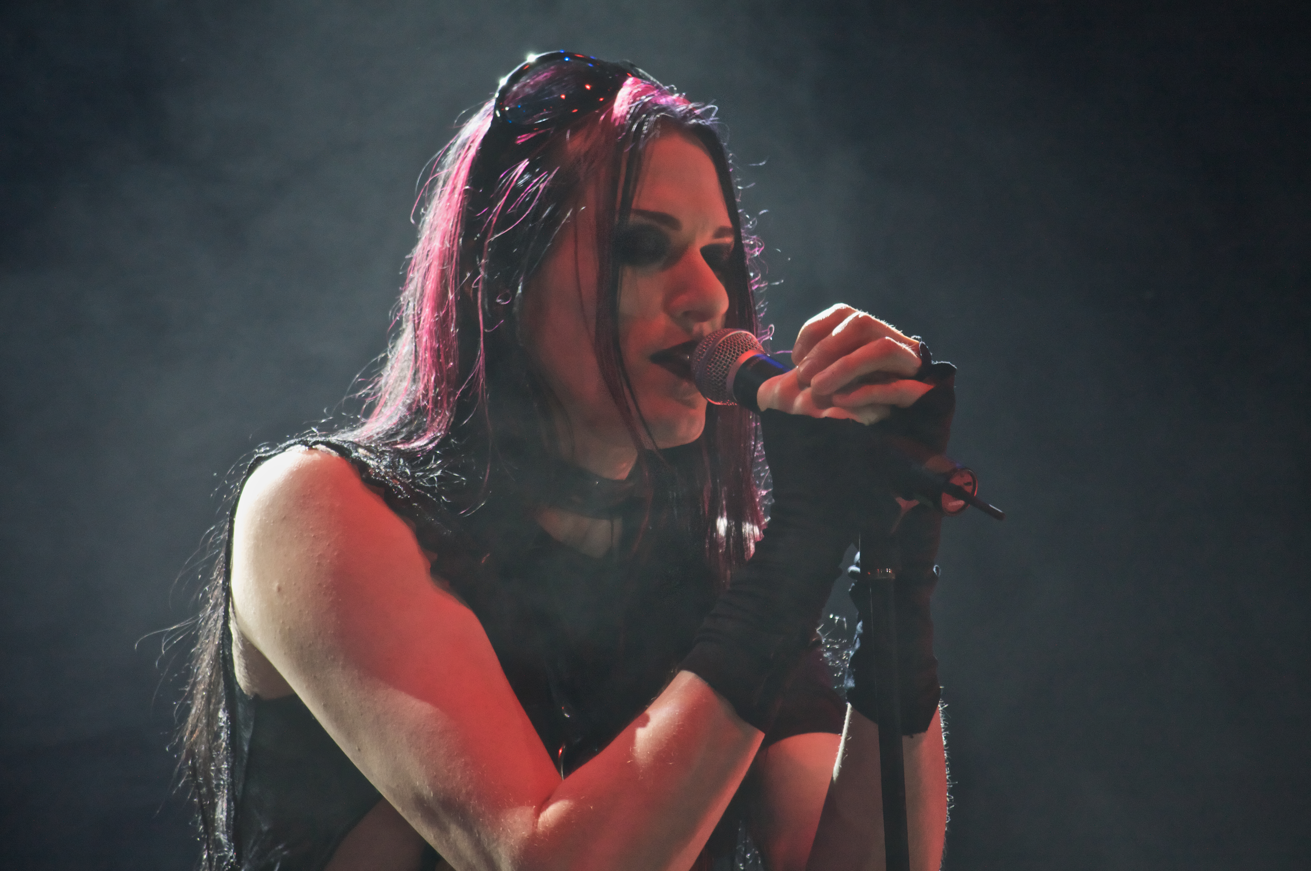 Sean Brennan, Vocalist with London After Midnight. Picture Taken at the WGT2008 in the Agra Hall, Leipzig, Germany.